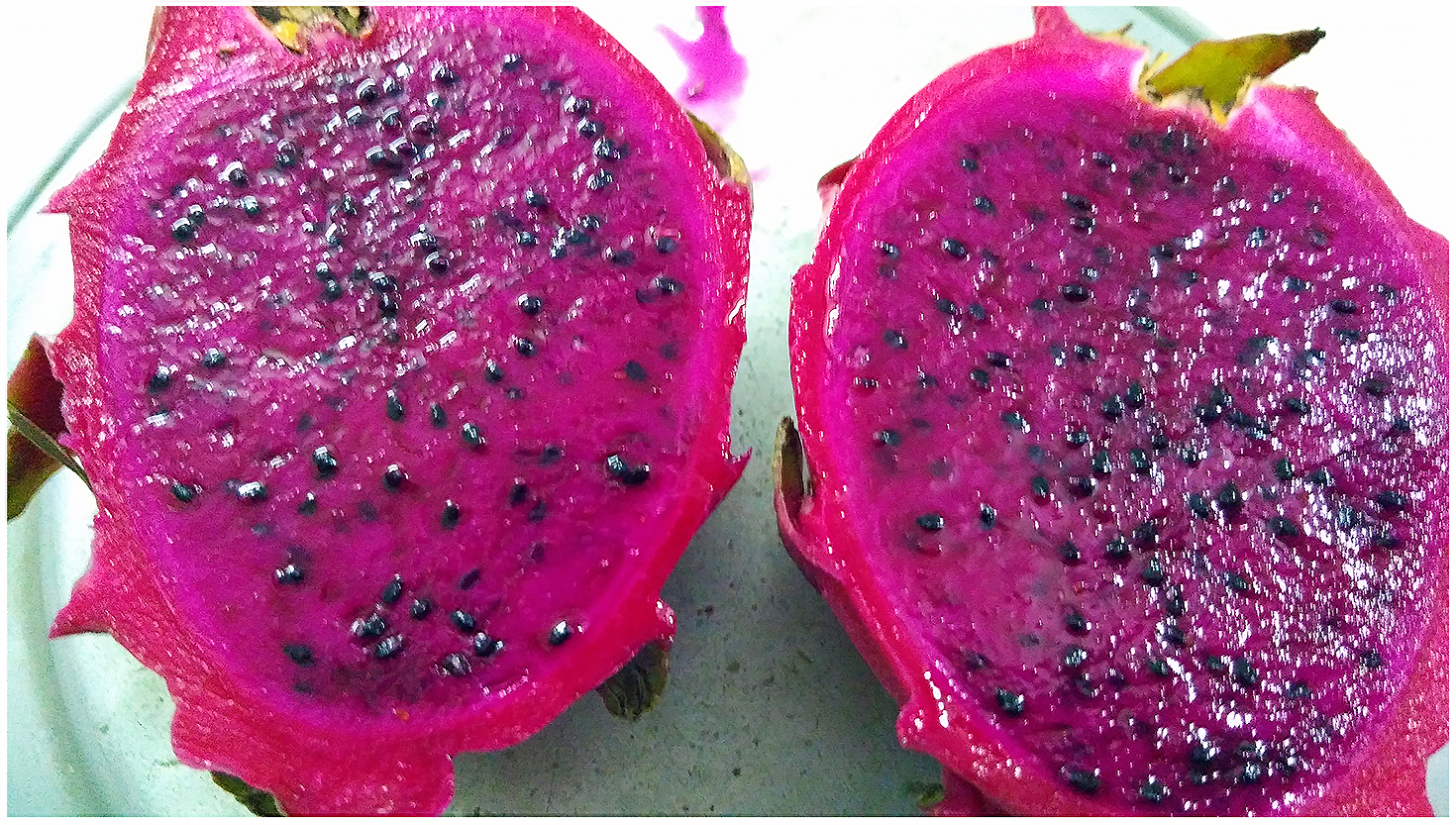 A pitaya fruit cut in half.